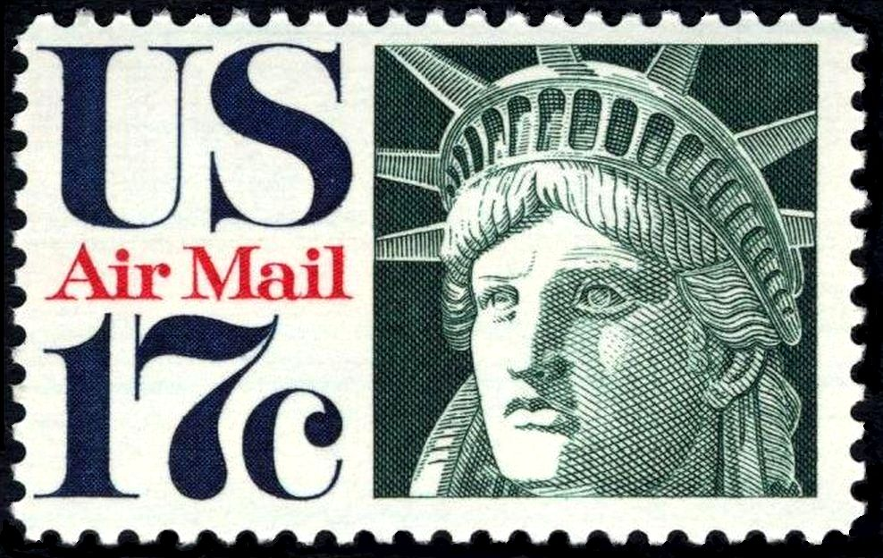 Image of Airmail stamp, 17c, issue of 1971, depicting the Statue of Liberty